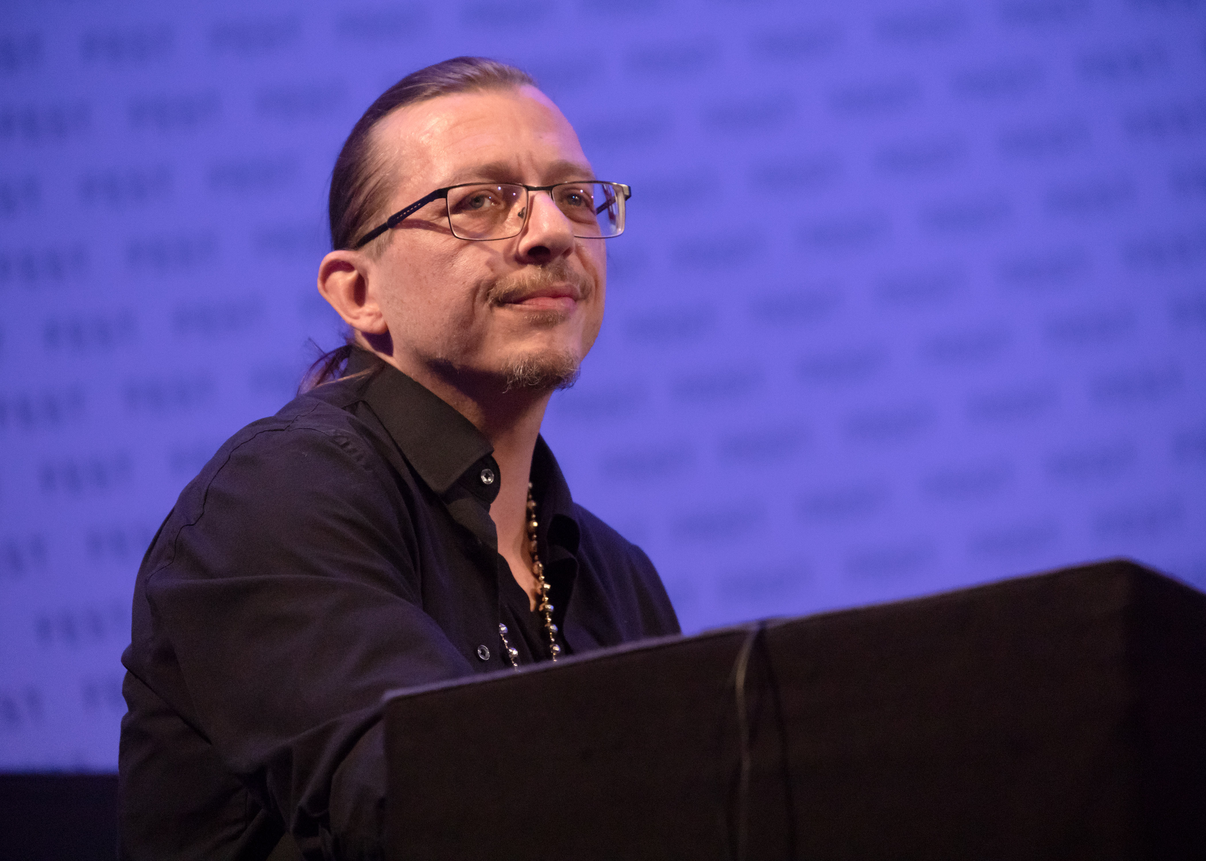 Karl Stirner at the opening evening of the Vienna Festival 2018 (Rathausplatz, Vienna, Austria).